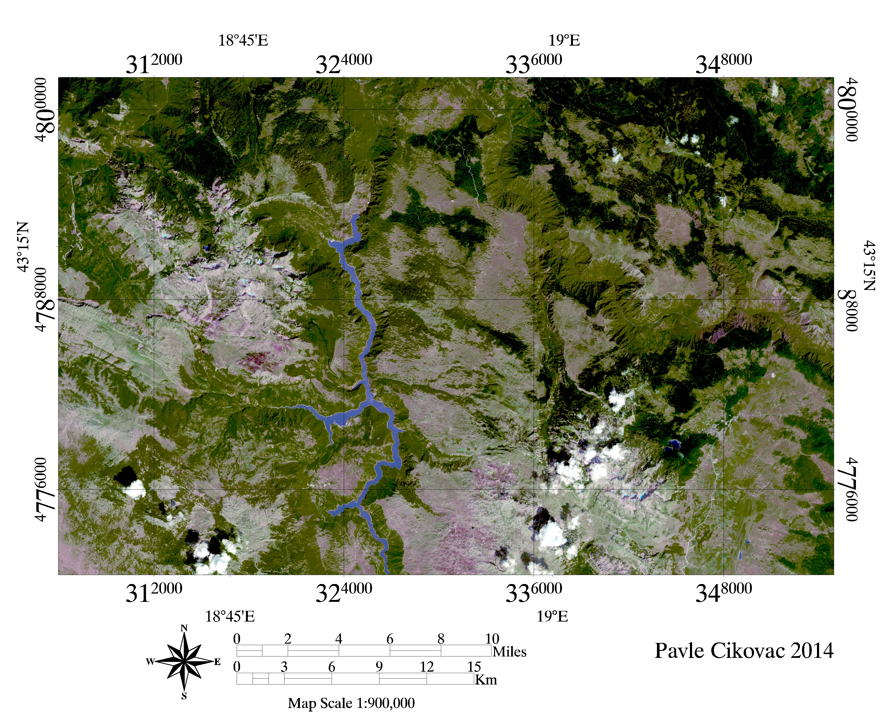 Durmitor - Volujak - Bioc - Maglic glacial and snwo activity 2013